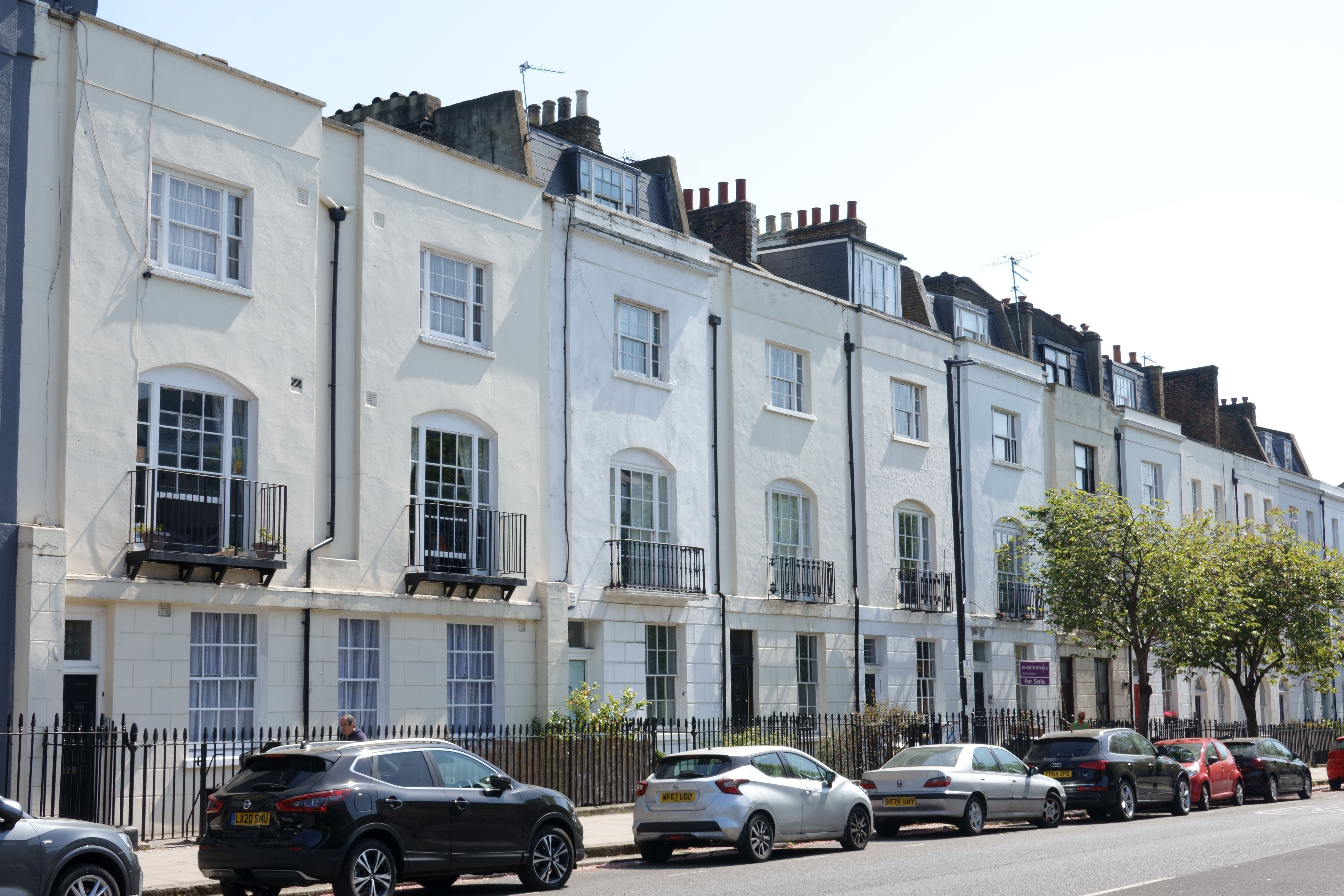 Thomas Cubitt houses, 230-254 Liverpool Road, Islington, London - April 2020